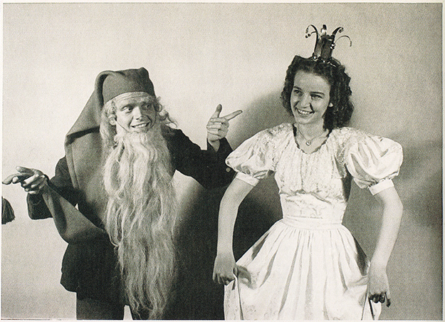 Rune Andréasson (as Nisse Rask) and Ulla Andréasson (as princess) in "Putte Pucks äventyr", Gothenburg City Theatre 1946.